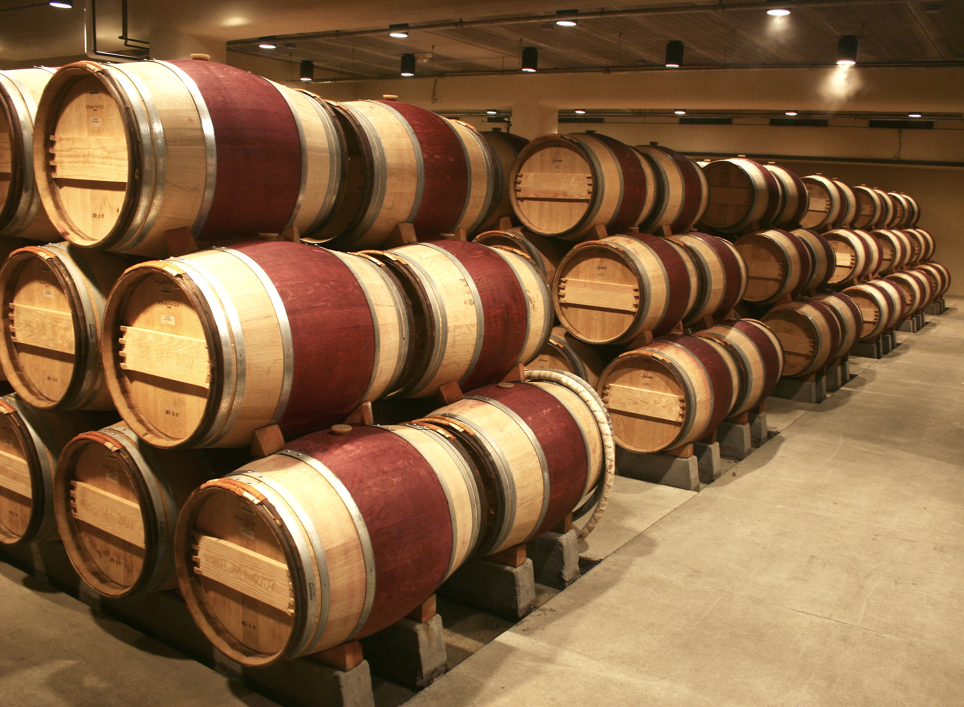 Oak wine barrels at the Robert Mondavi vineyard, Oakville, Califorian USA (Napa Valley)